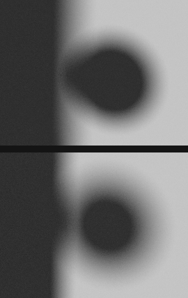 In the top image, the circle on the right is further from the light source than the wall on the left, resulting in a bulging of the circle's shadow. In the bottom image, the wall on the left is further from the light source than the circle on the right, resulting in a bulging of the wall's shadow. These images were rendered using the Cycles rendering engine in Blender.